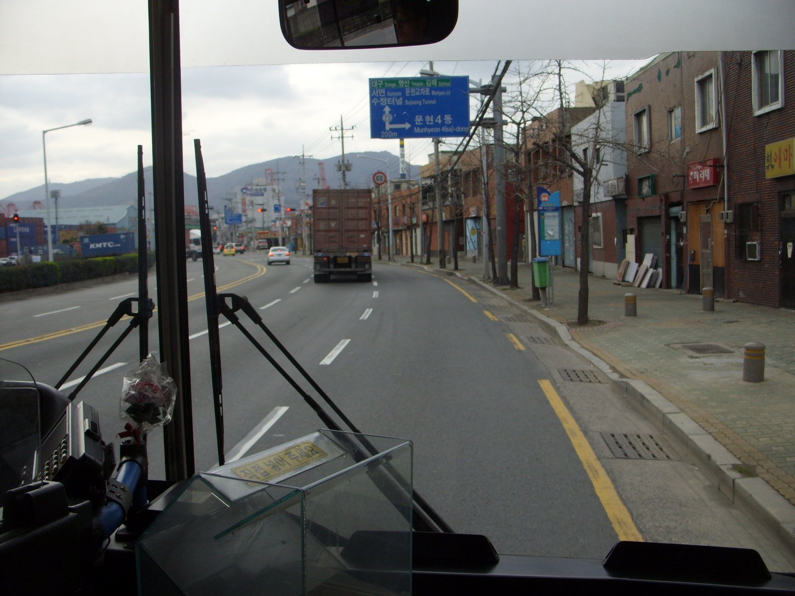 Jeokkibaekmeori in U-am-ro Road(Busan Urban Road Route #73), Busan, Korea